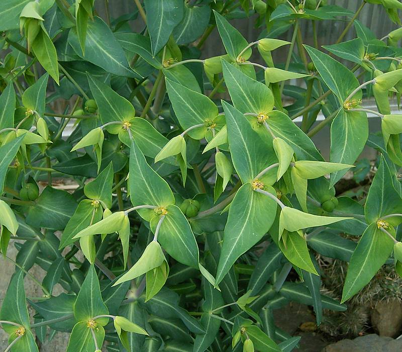 Euphorbia lathyris